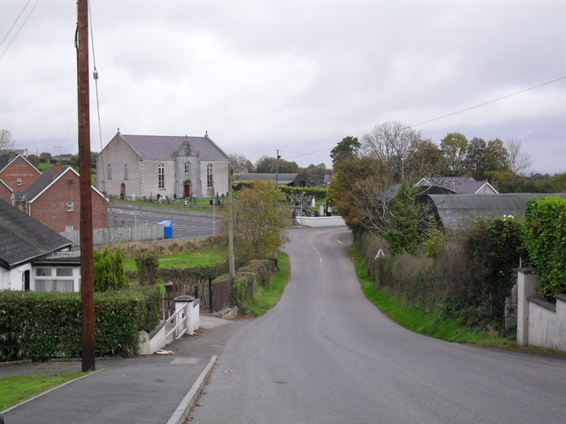 Cladymore village More frequently known as 'Clady'. St. Michael's church (RC) sits in the distance.